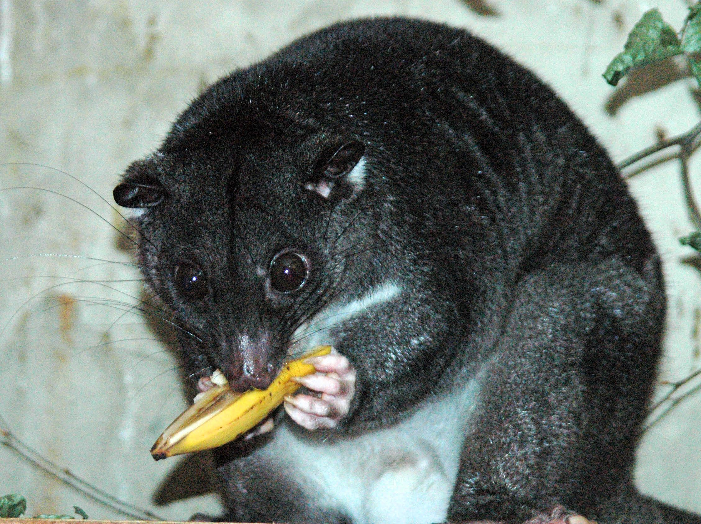 Ground Cuscus at Cotswold Wildlife Park, Burford, Oxfordshire